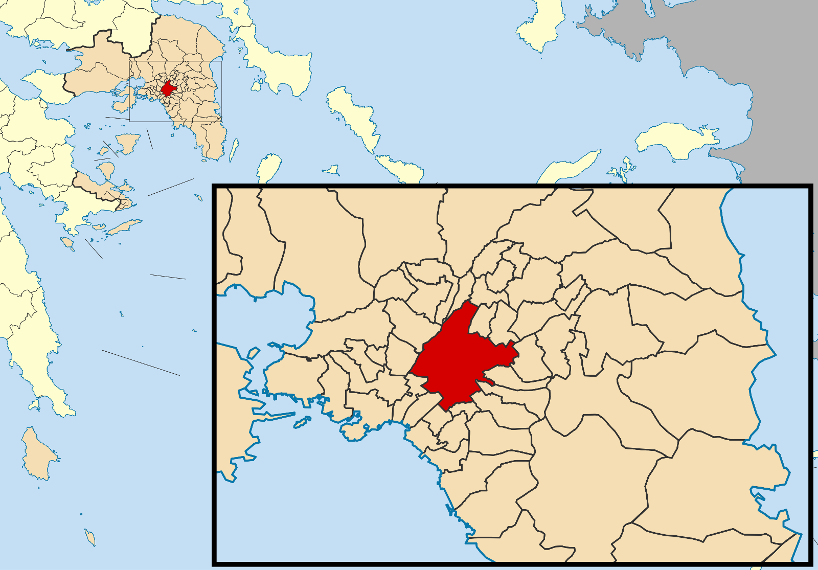 Locator map for Athens municipality in Greek region Attica (2011)